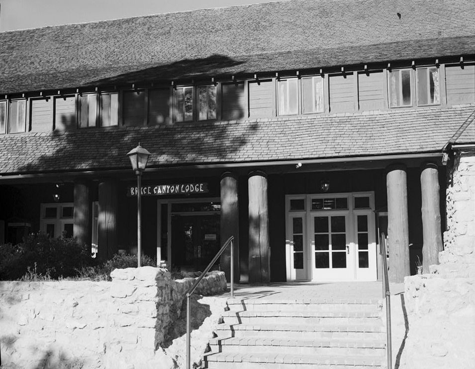 Bryce Canyon Lodge, Bryce Canyon, Garfield County, UT, FRONT ENTRANCE, FACING WEST, OFFSET VIEW SHOWING DOORS